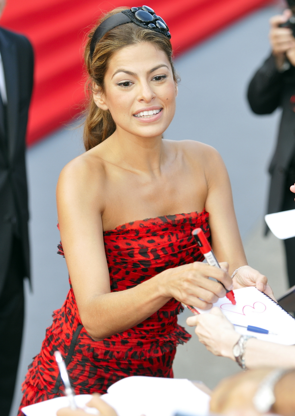 Eva Mendes at the 2009 Venice Film Festival